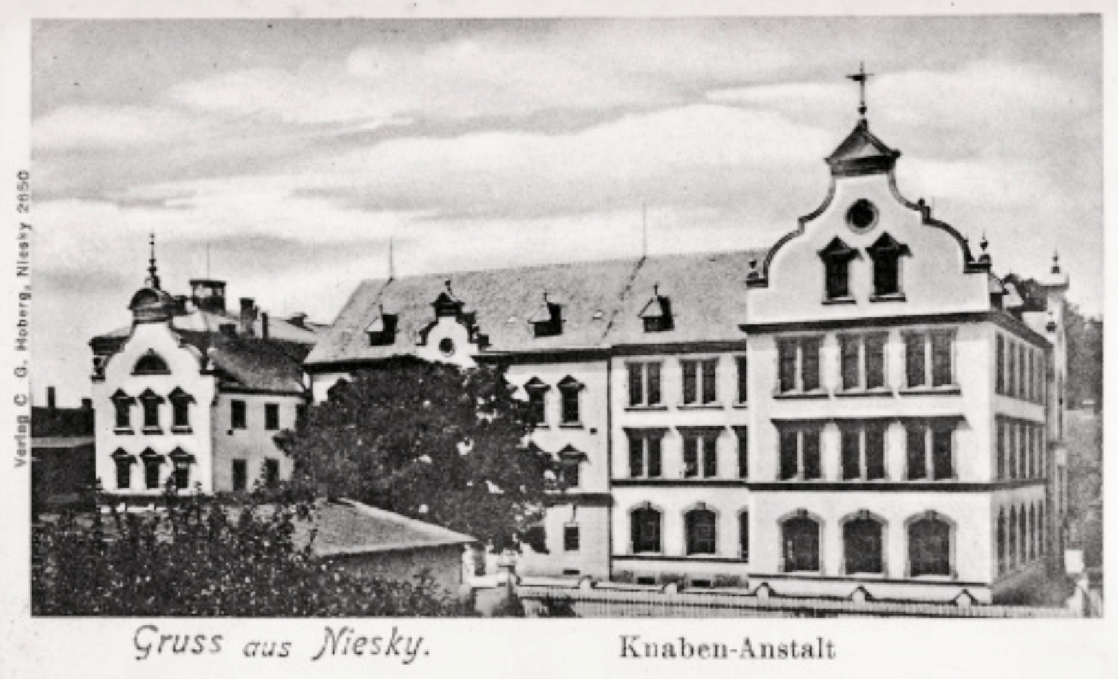 School building Knabenanstalt of Herrnhuter Brüdergemeine (= Moravian Church) in Niesky, Upper Lusatia, Germany.